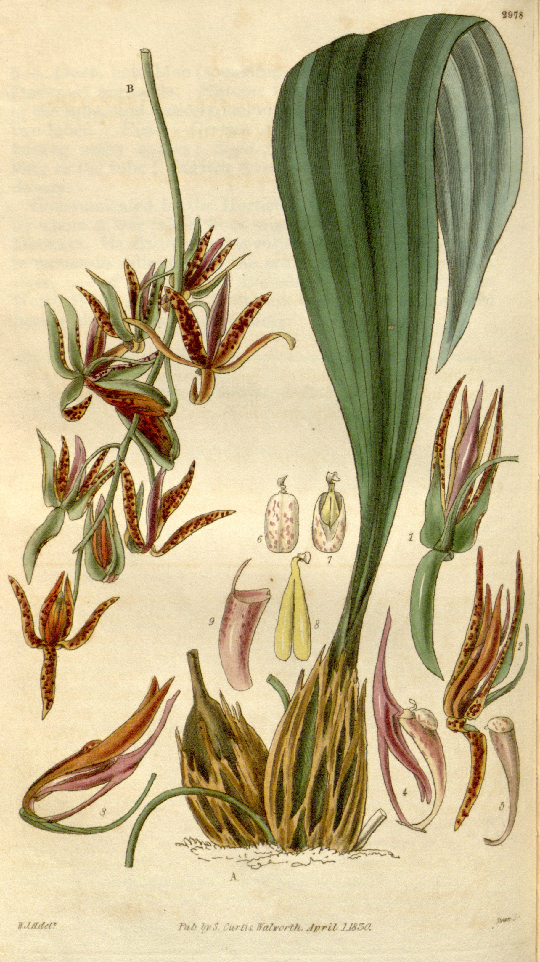 Illustration of Cirrhaea dependens (as syn. Gongora viridi-purpurea)